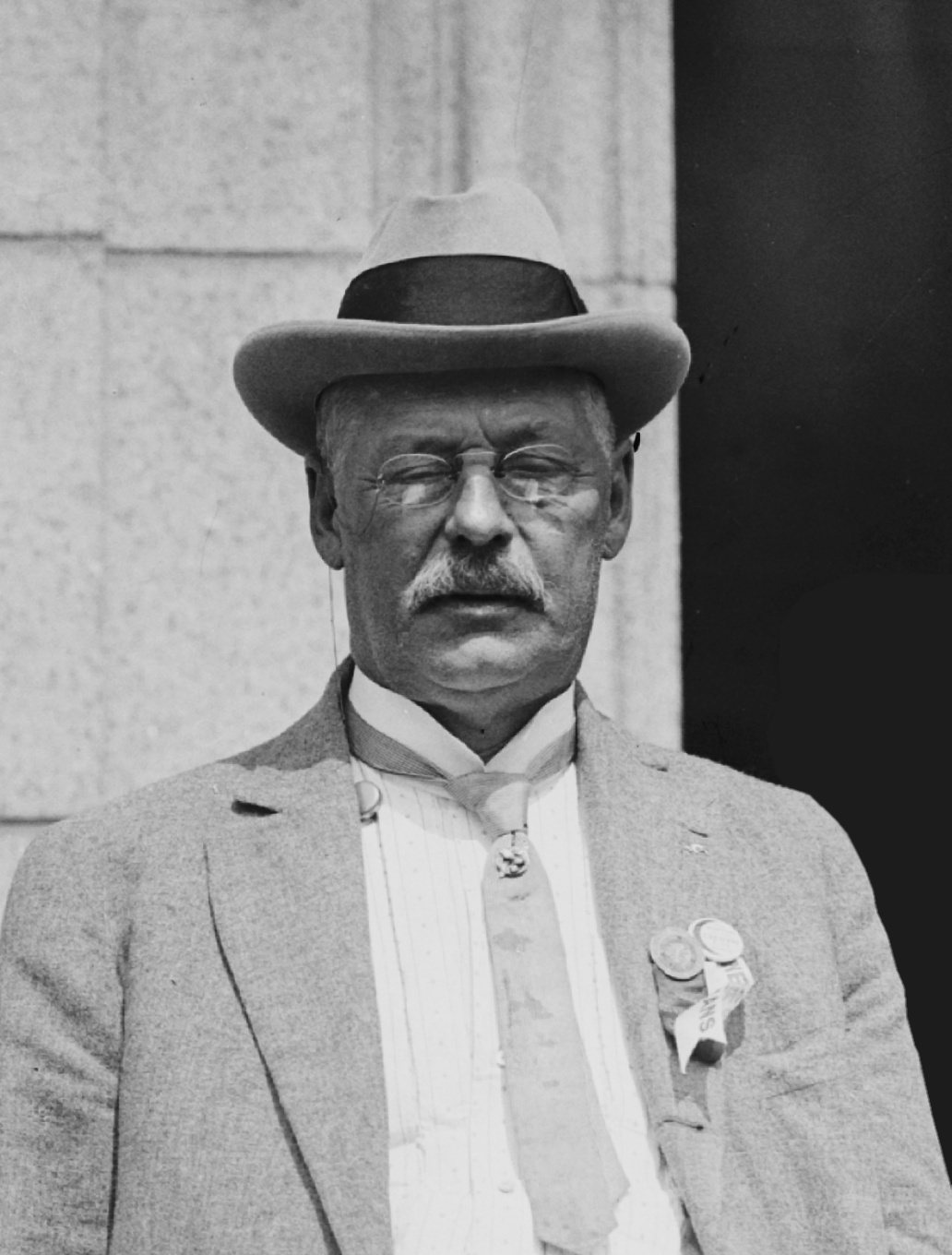 Photo shows George Consider Hale (1850-1923), fire chief in Kansas City from 1882 to 1902 and an inventor of fire safety equipment.